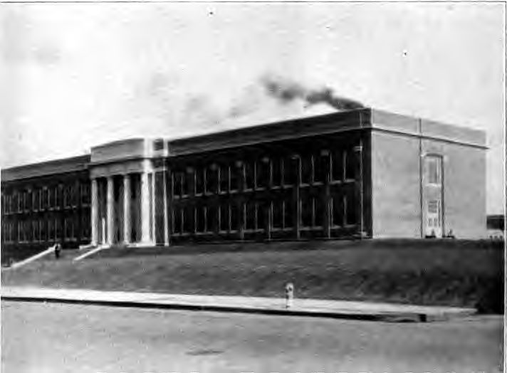 Benson HS in Portland, Oregon circa 1920